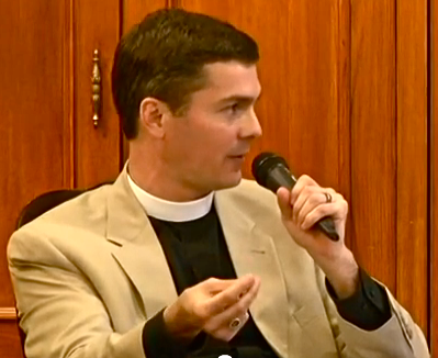 Photo of the Very Rev'd. Barkley S. Thompson, Dean of Christ Church Cathedral (Episcopal) in Houston, TX, during a Q&A session of the Lenten Lecture Series on March 19, 2014.